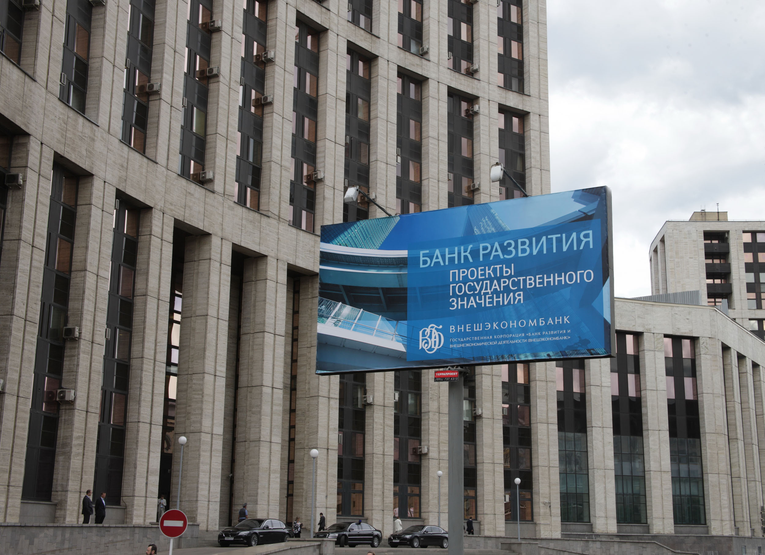 Vnesheconombank